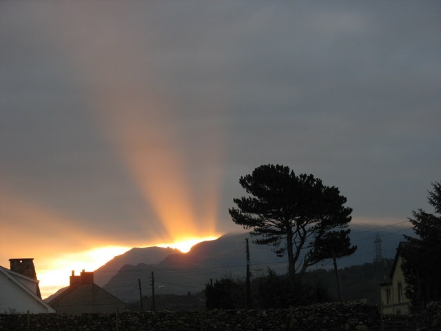 Winter solstice dawn over Llanrug The sun rises between Crib Goch and Carnedd y Ddisgl. Taken at 08.25 296448